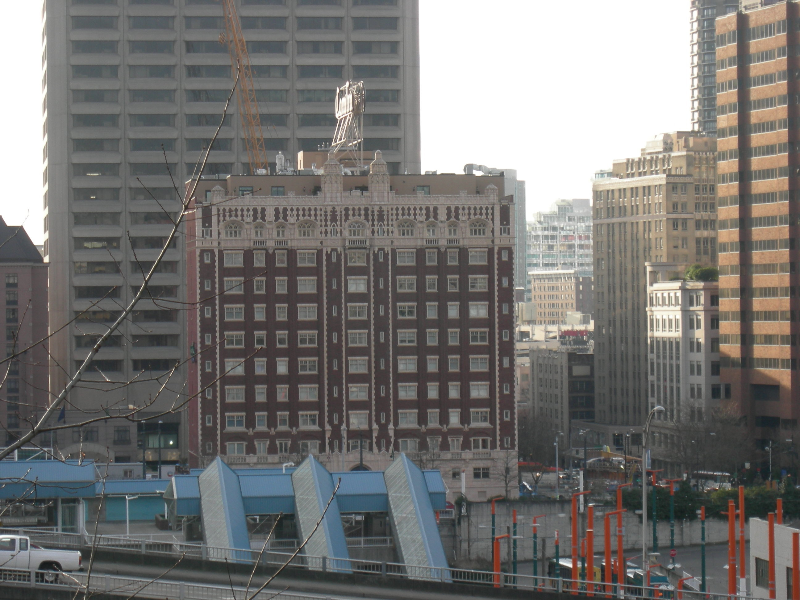 Camlin Hotel, Seattle, Washington, viewed from Capitol Hill; in front of the hotel is the Convention Center bus tunnel station. Added to National Register of Historic Places 1999 - Building - #99000405